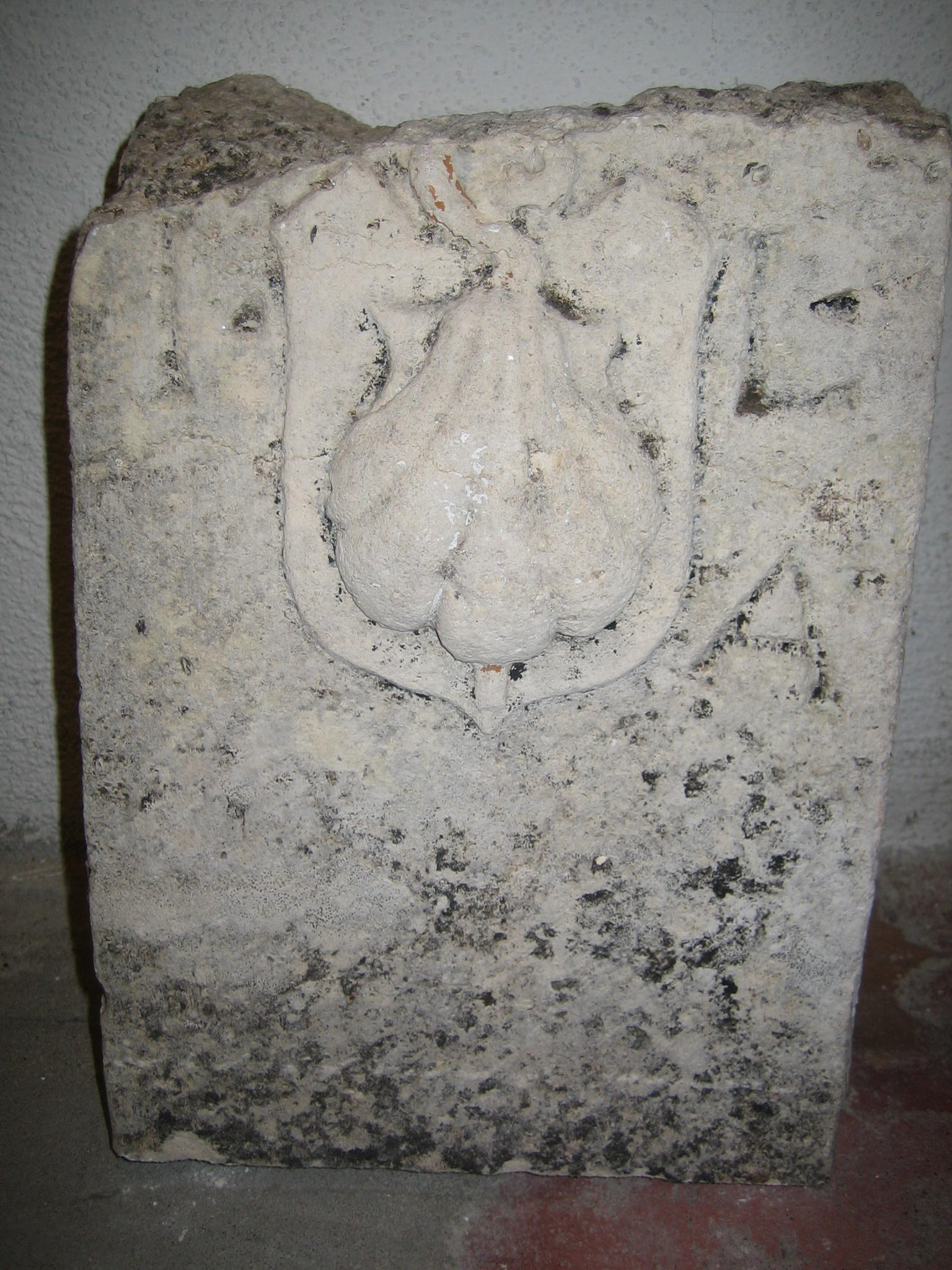 Boundary marker of Jakobsberg Abbey, Mainz; 17th century.